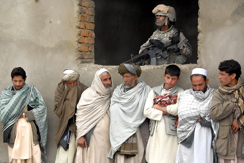 A U.S. Army soldier provides security from a building while other soldiers deliver humanitarian aid to people at the Baraki Barak District Center in Baraki Barak in Logar province, Afghanistan, April 5, 2009. The soldiers are assigned to the 10th Mountain Division's 3rd Brigade Combat Team. U.S. Army photo by Spc. Nathaniel Allen